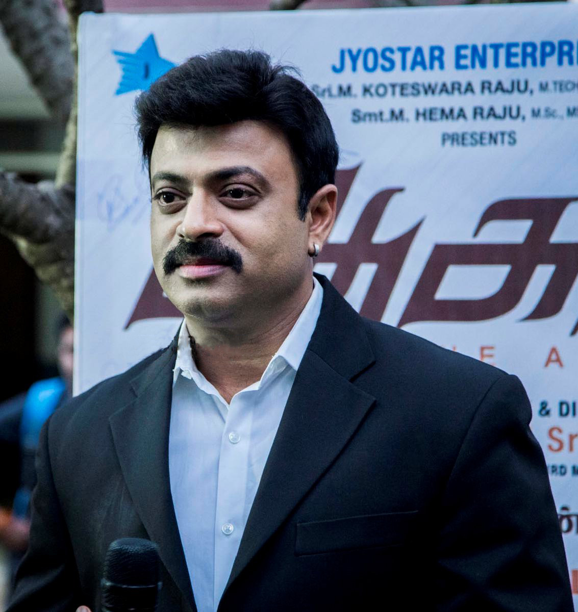 Riyaz Khan at the Aagam Audio Launch